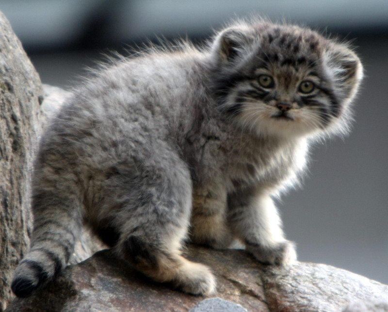 Otocolobus manul kitten in Parken Zoo, Sweden.